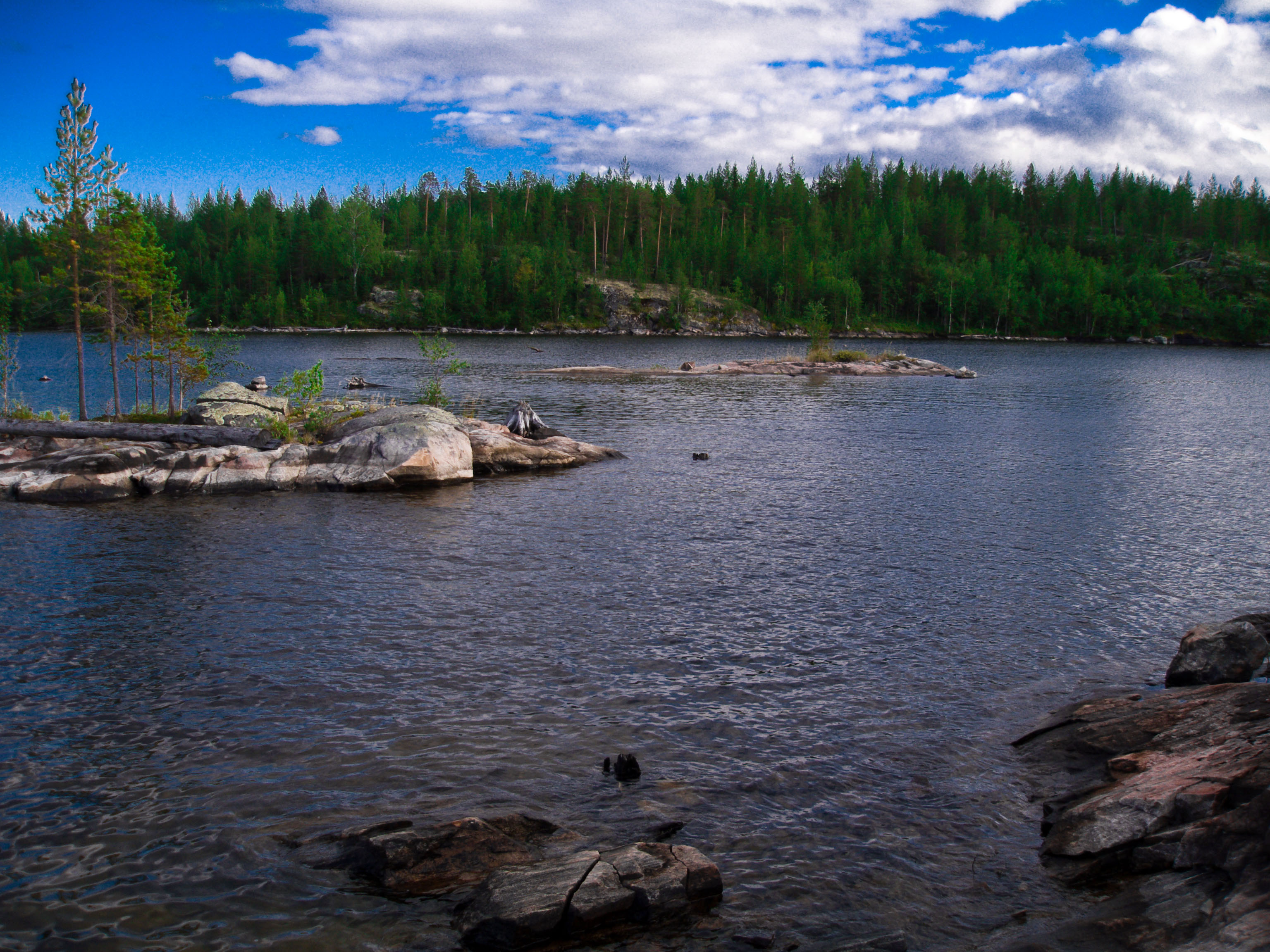 Taiga forest (ecoregion) habitat — at Lake Kovdozero, in Murmansk Oblast, Northwest European Russia.